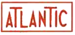 earlier Logo of Atlantic ~1970, toy soldiers